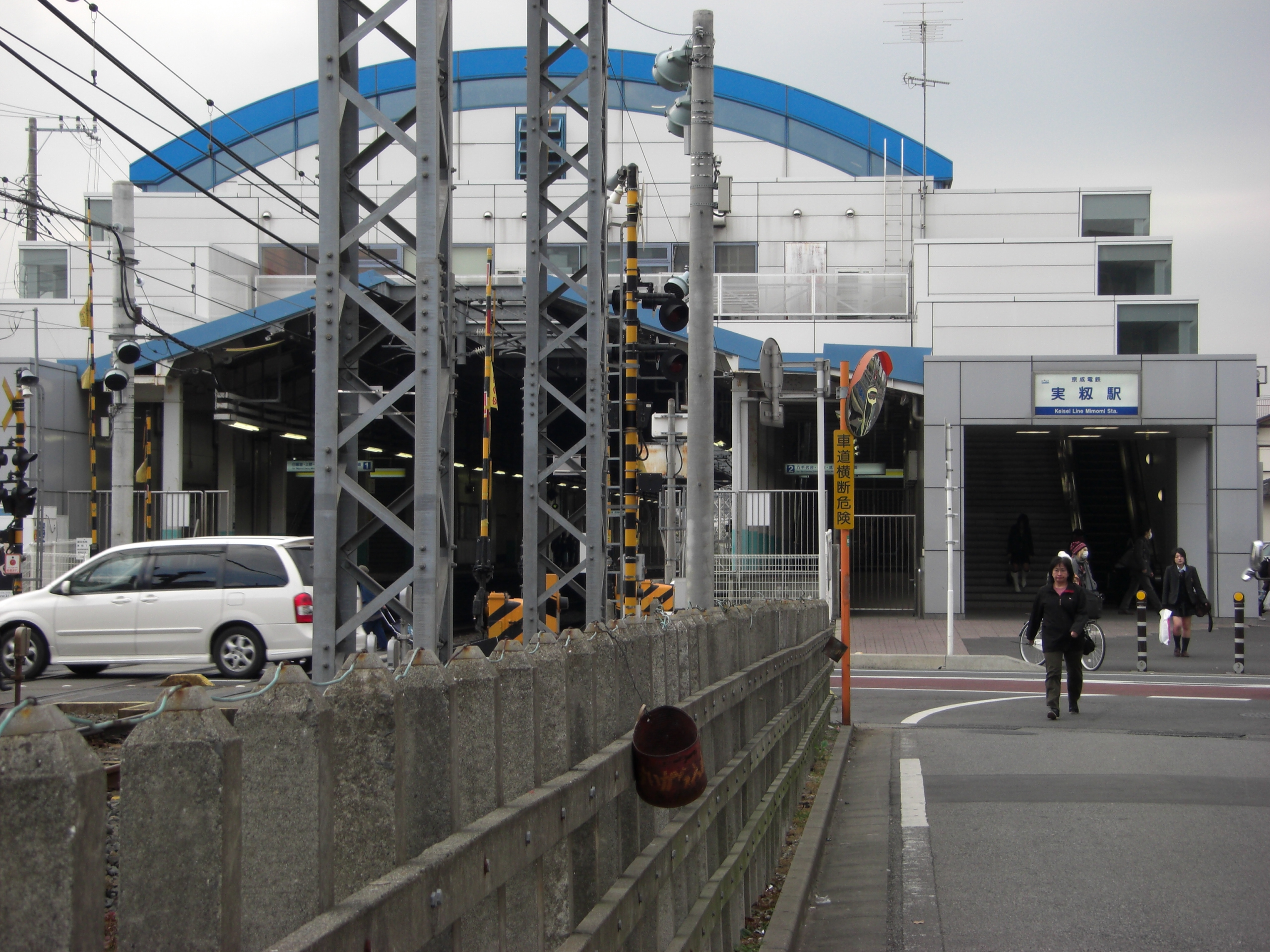 Mimomi Station south side